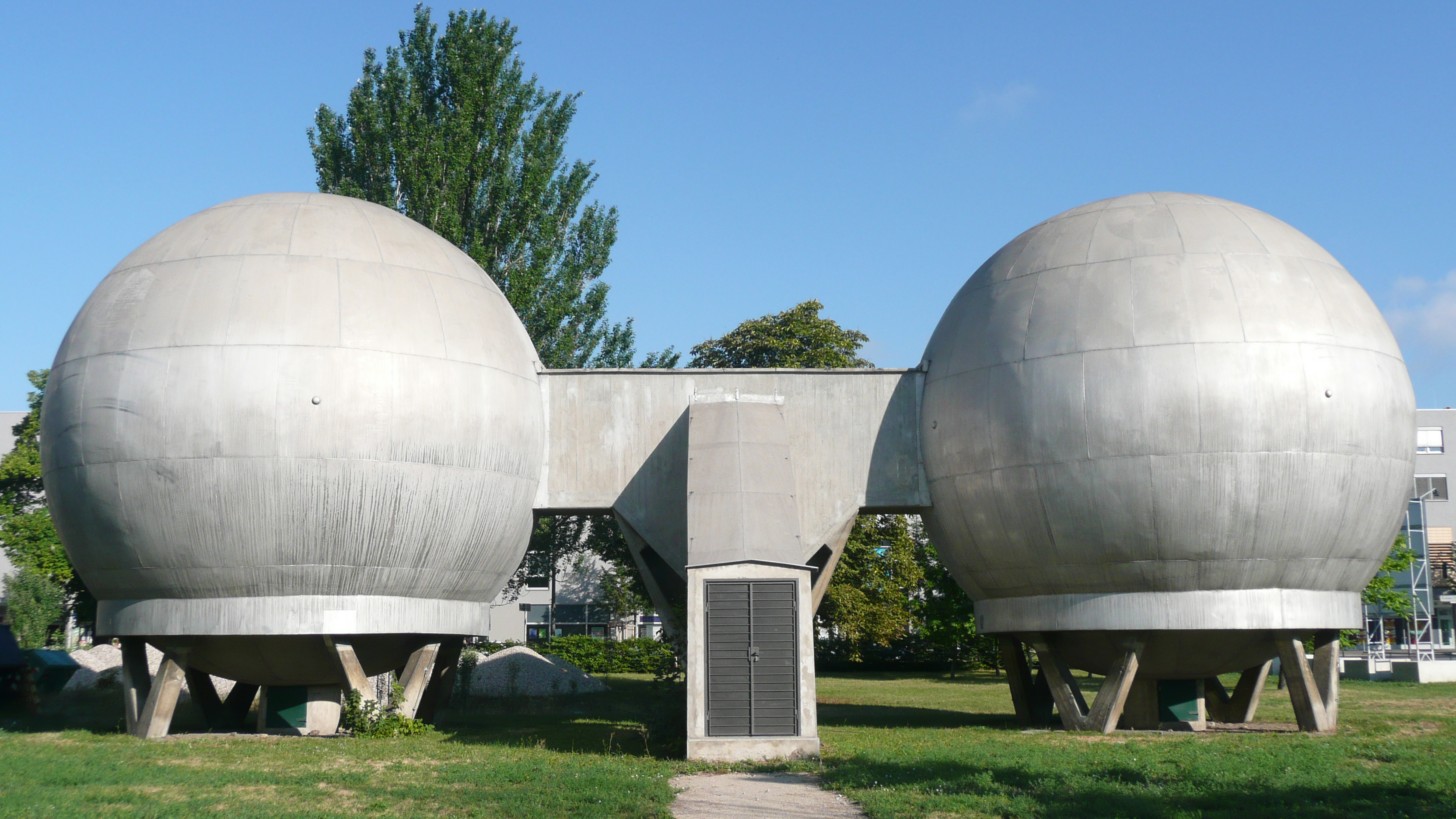 Isothermische Kugellabore in Berlin-Adlershof - Technisches Denkmal